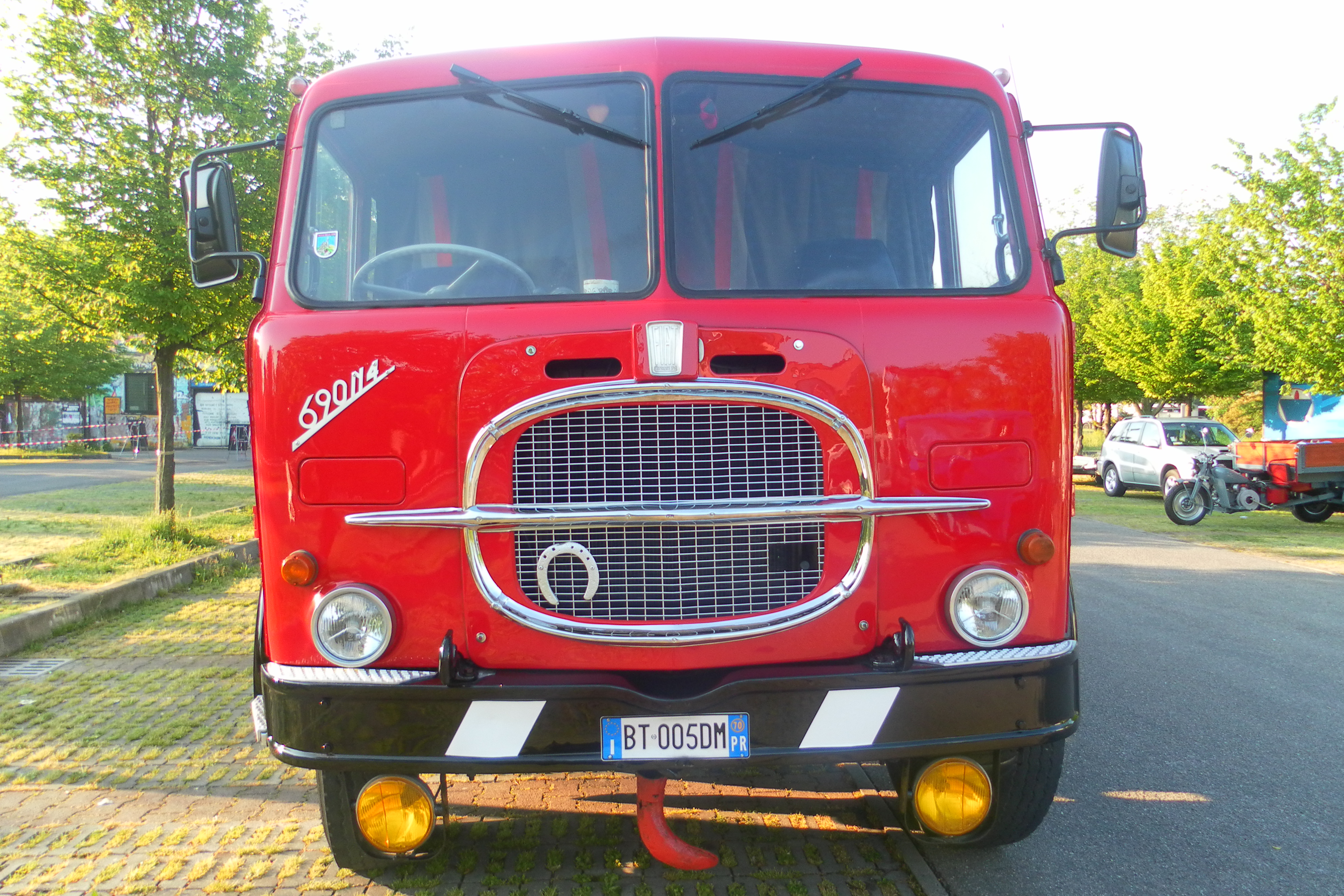 Fiat 690 N4